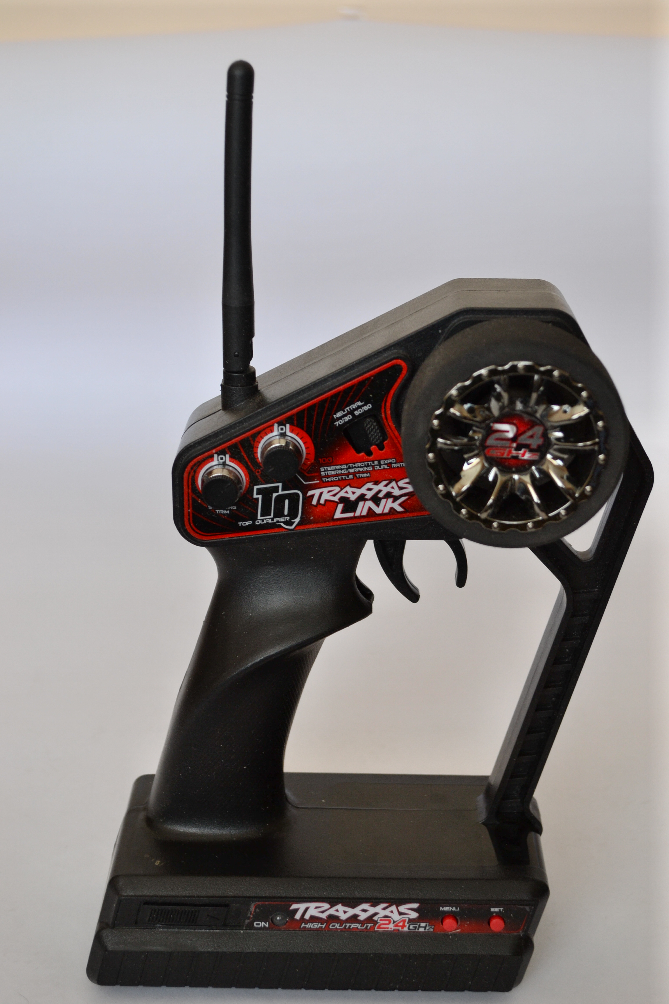 Transmitter Traxxas TQ 2.4GHz 2-Channel Spread Spectrum Radio to drive a RC car and boats